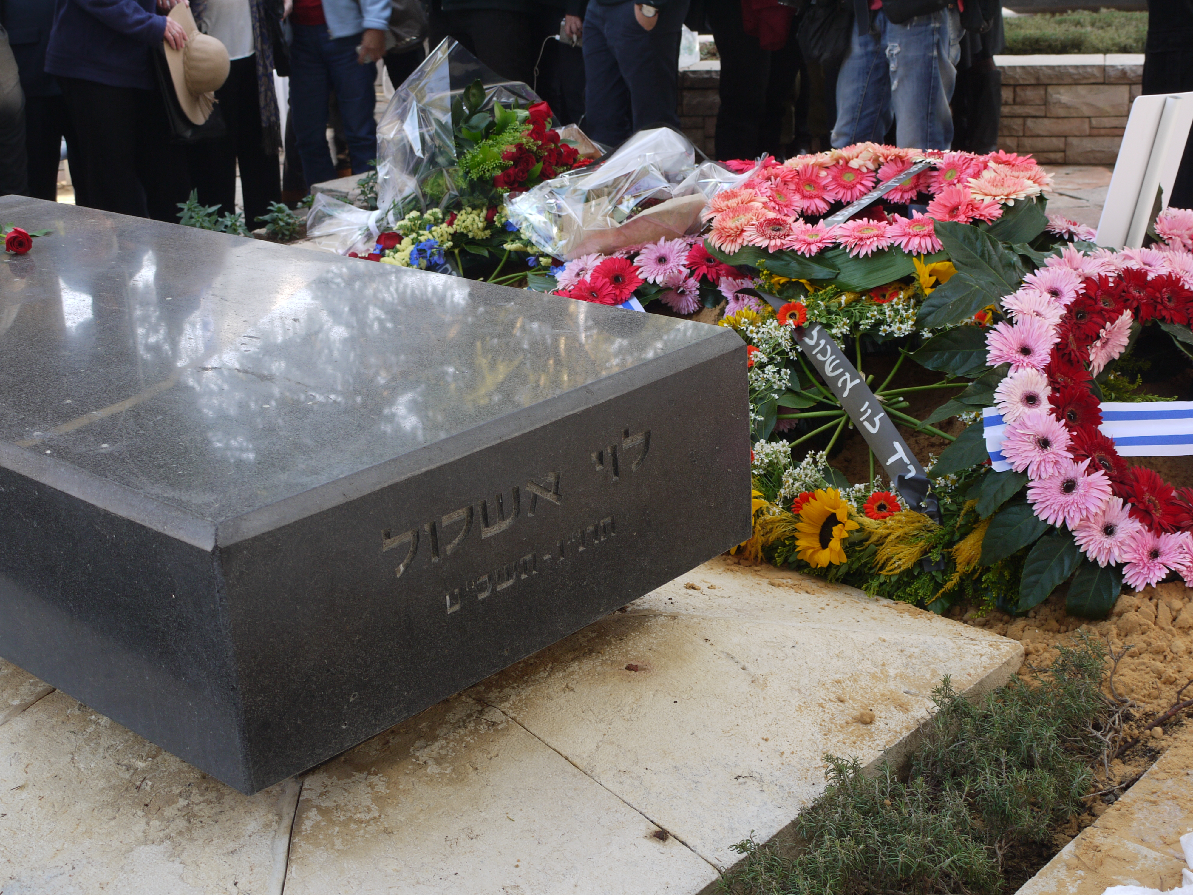 Funeral of Mrs. Miriam Eshkol, widow of Israeli Prime Minister Levi Eshkol. Photographer: Eitan Wetzler / Yad Levi Eshkol